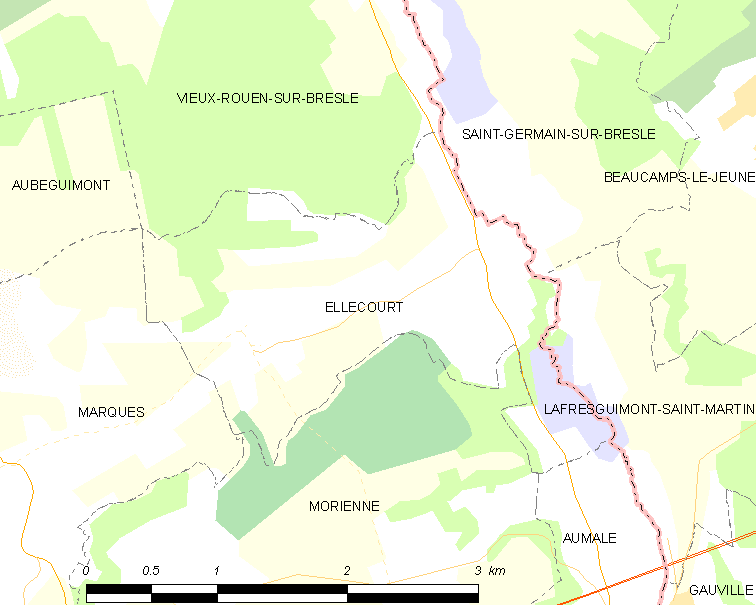 Map of French municipality Ellecourt